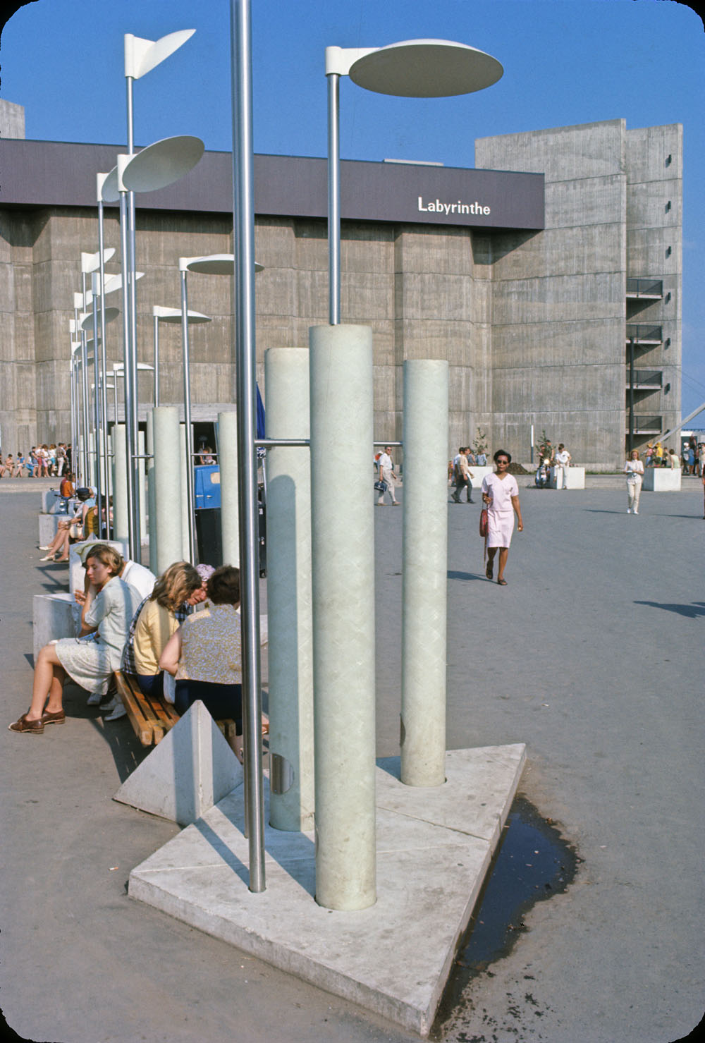 One of the highlights of Expo 67 was the Labyrinth Pavilion by the NFB. A five-storey building with two screening halls and a transition hall. Designed by producers and filmmakers Colin Low, Roman Kroitor and Hugh O’Connor, the pavilion brought to mind Daedalus’ labyrinth where Theseus killed the Minotaur. But what was inside this Labyrinth? The audience was invited to a first screening in Hall I. Standing on eight balconies spread over four floors, they could see on two screens, measuring eleven-and-a-half meters by six meters each, one installed on the ground, the other set up vertically, images symbolizing the entry of man into the world, the innocence of childhood and the joie de vivre of adolescence. Two hundred and eighty-eight speakers arranged behind the screens ensured a sound experience that had been unmatched until then. Then they crossed Hall II, a transitional space filled with colour and music evoking the mazes of a labyrinth before reaching Hall III. It was this last hall that held the highlight of the show! A film projected simultaneously by five projectors on five large screens arranged in the shape of a cross. A sensory experience so unprecedented that it would closely match what IMAX technology would offer years later. Filmed in Ethiopia, Japan, Cambodia, the United States, Greece, India, the United Kingdom, Canada and the former USSR, which at the time was a feat, In the Labyrinth (1967) was intended as a modern interpretation of the myth of Theseus and the Minotaur.